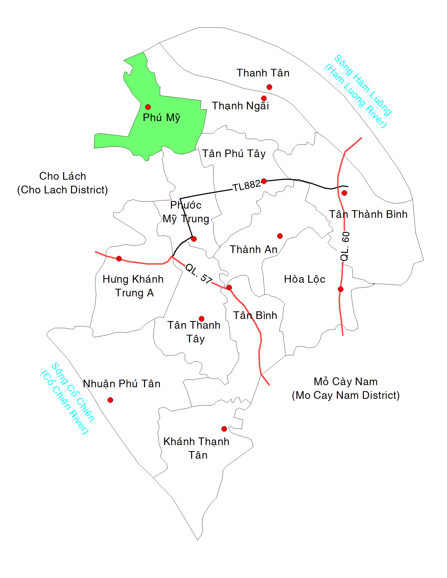 Locaiton map of Phú Mỹ commune, Mo Cay Bac District, Ben Tre province, Vietnam